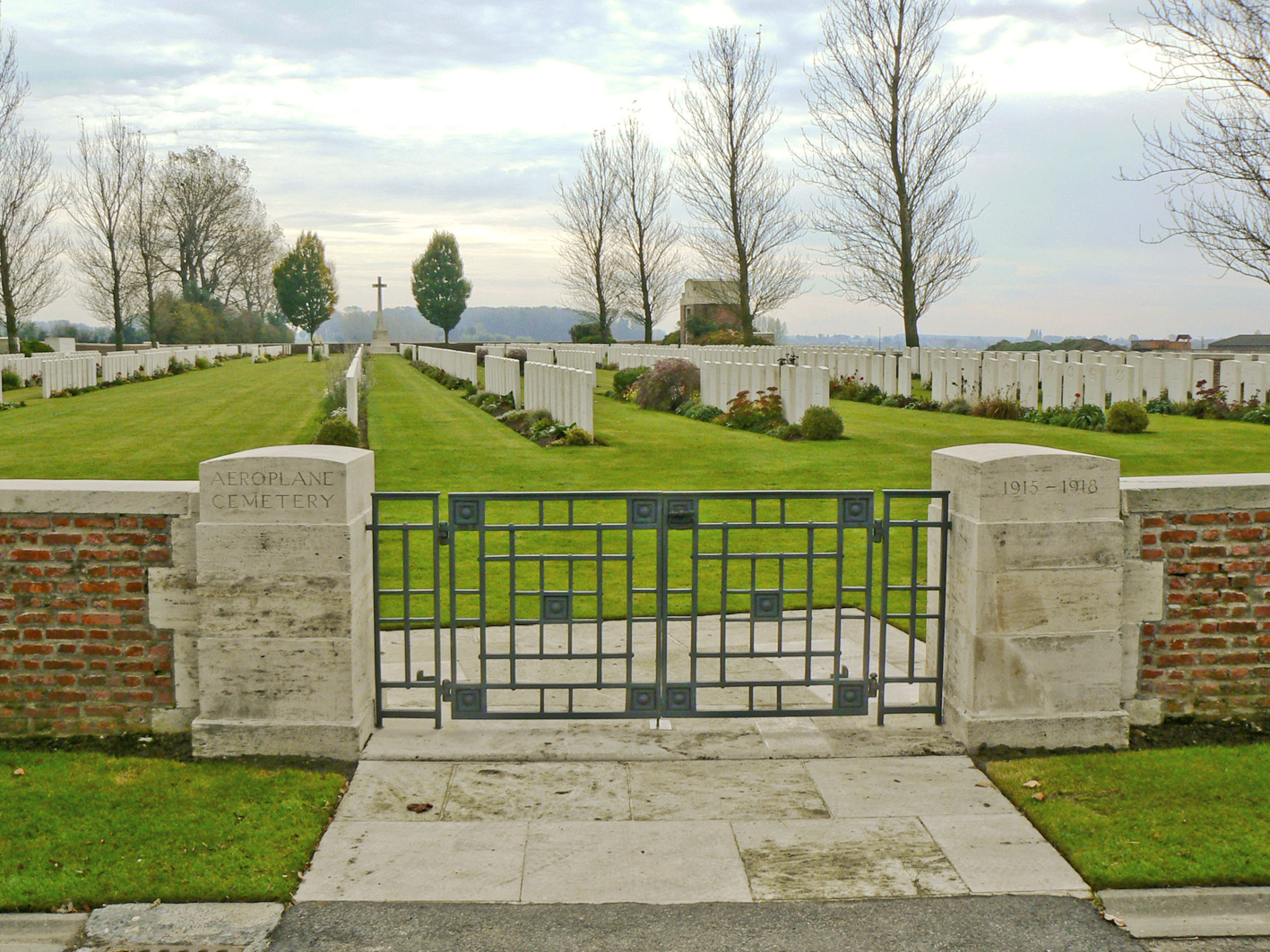 Entrance